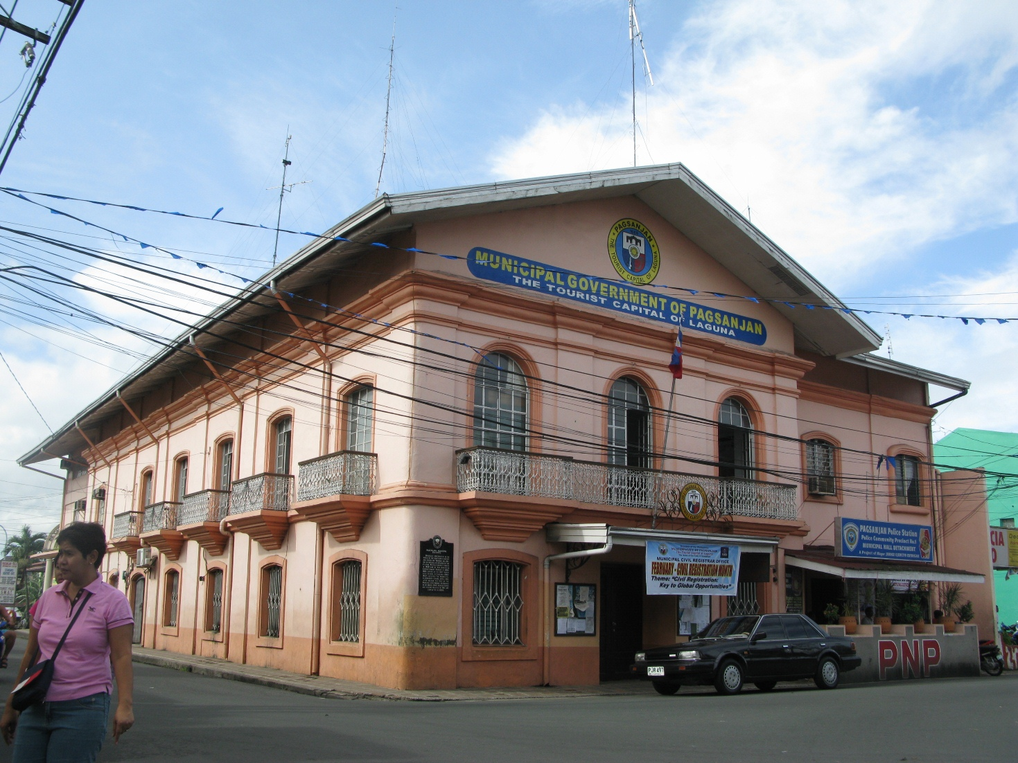 The Municipal Hall of the town of Pagsanjan in Laguna province in the Philippines. It was originally constructed in the middle of 19th century and housed the "Tribunal de Gremio Naturales."